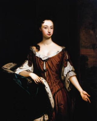 Mary, Countess of Dorset by Godfrey Kneller